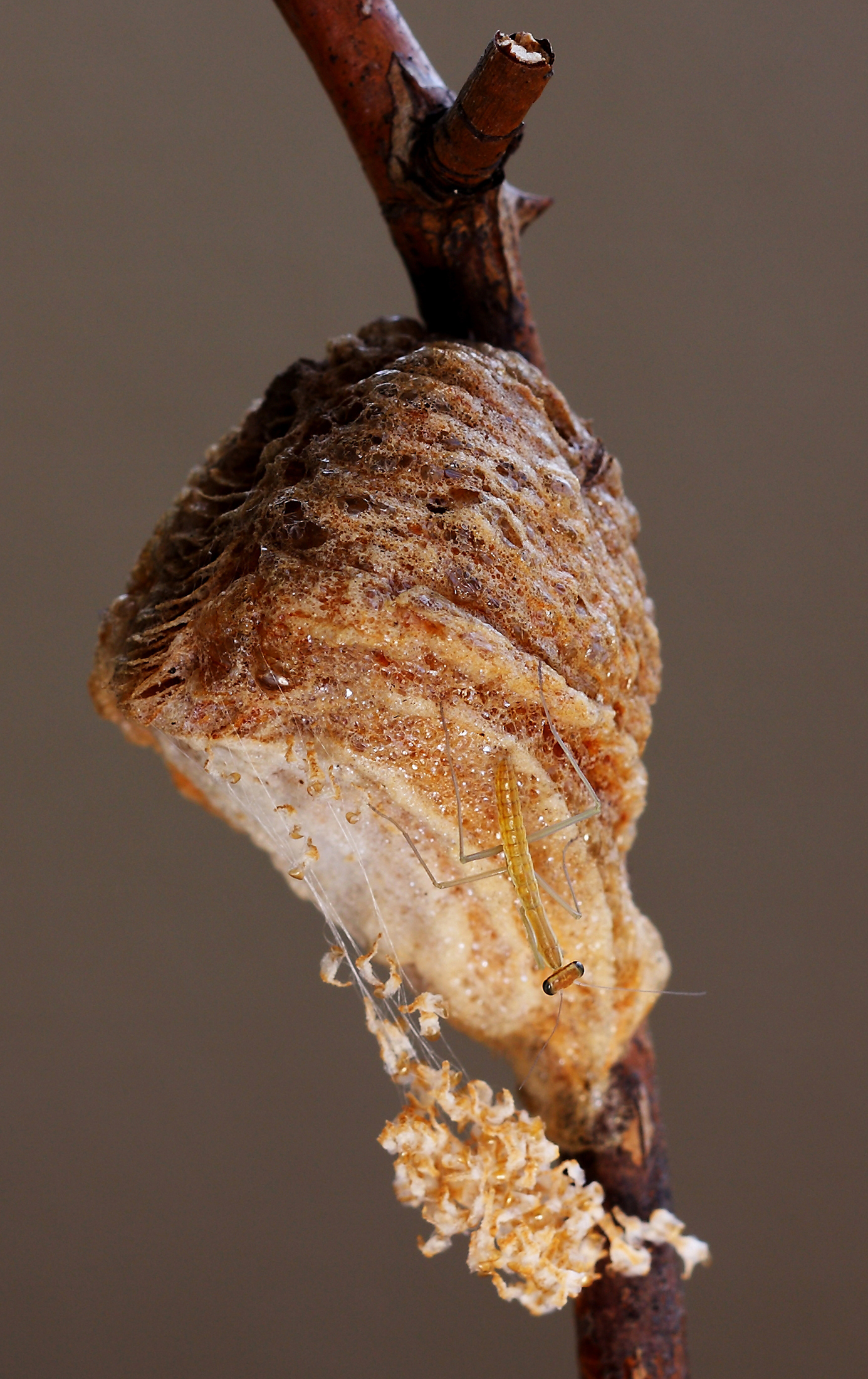 Hatched Tenodera aridifolia from Ootheca.